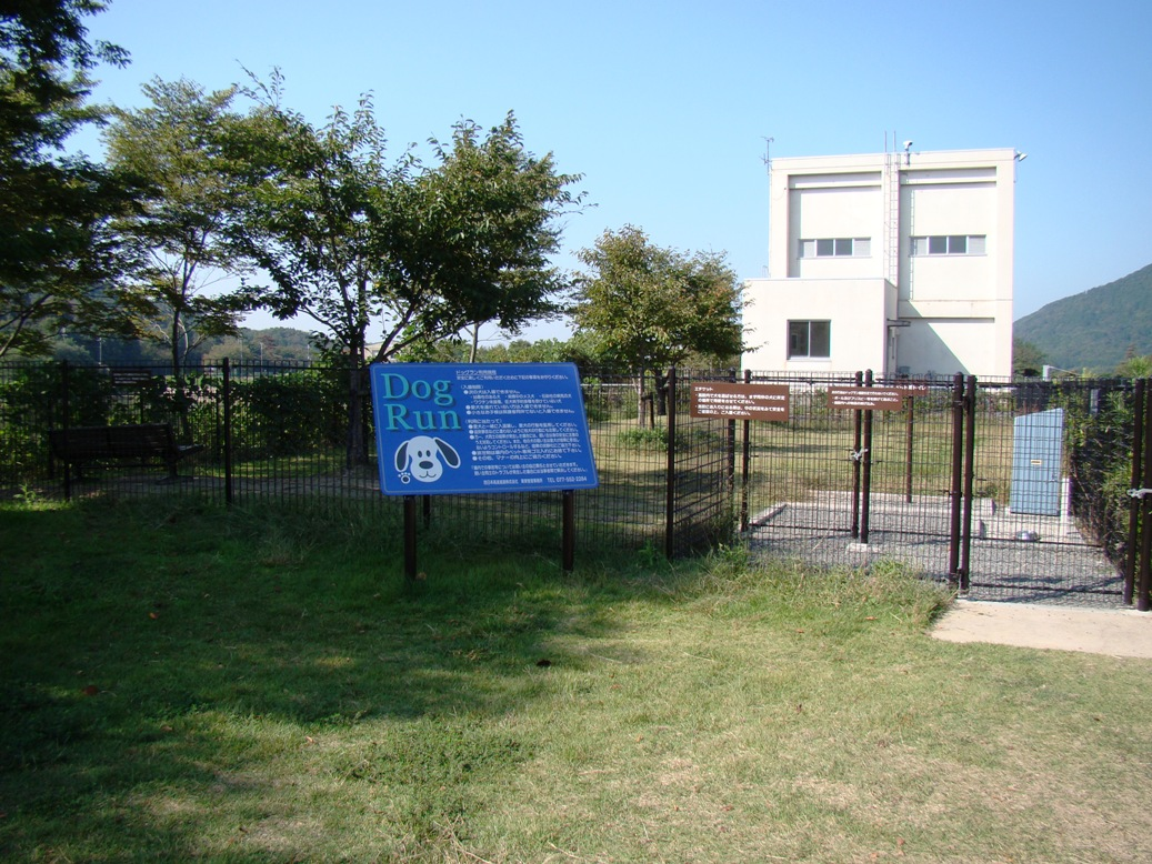 Dogrun of Bodaiji parking area Meishin expressway Shiga Japan